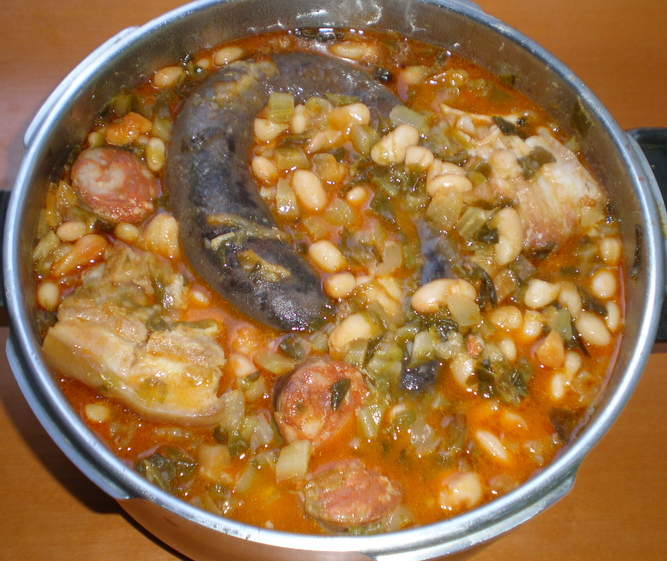 Highland stew, Cantabrian typical dish. Montañés: Cocíu montañés, platu típicu de Cantabria.